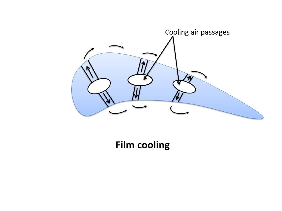 Film cooling revised